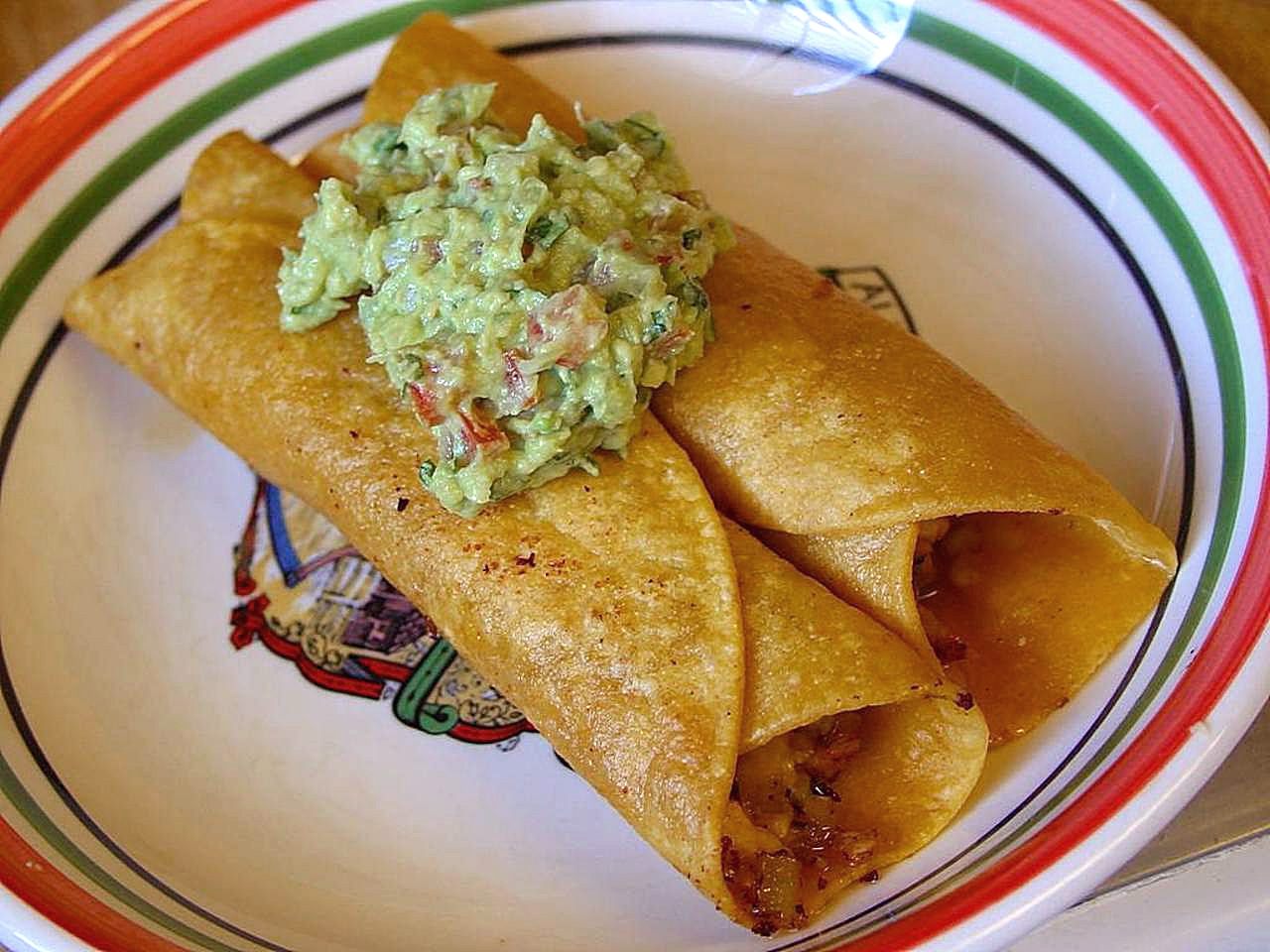 Image title: Flautas guacamole tortillas Image from Public domain images website